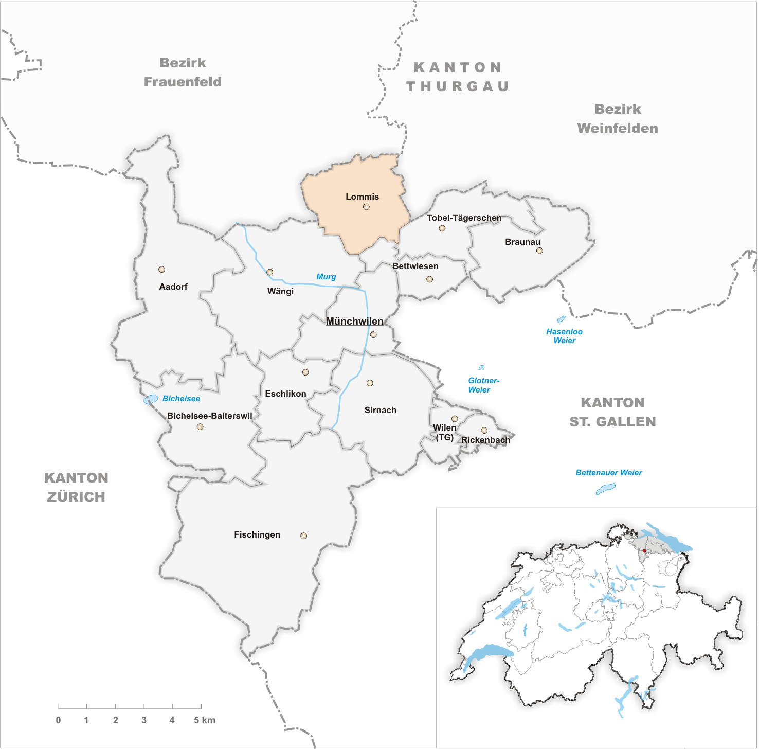 Municipality Lommis